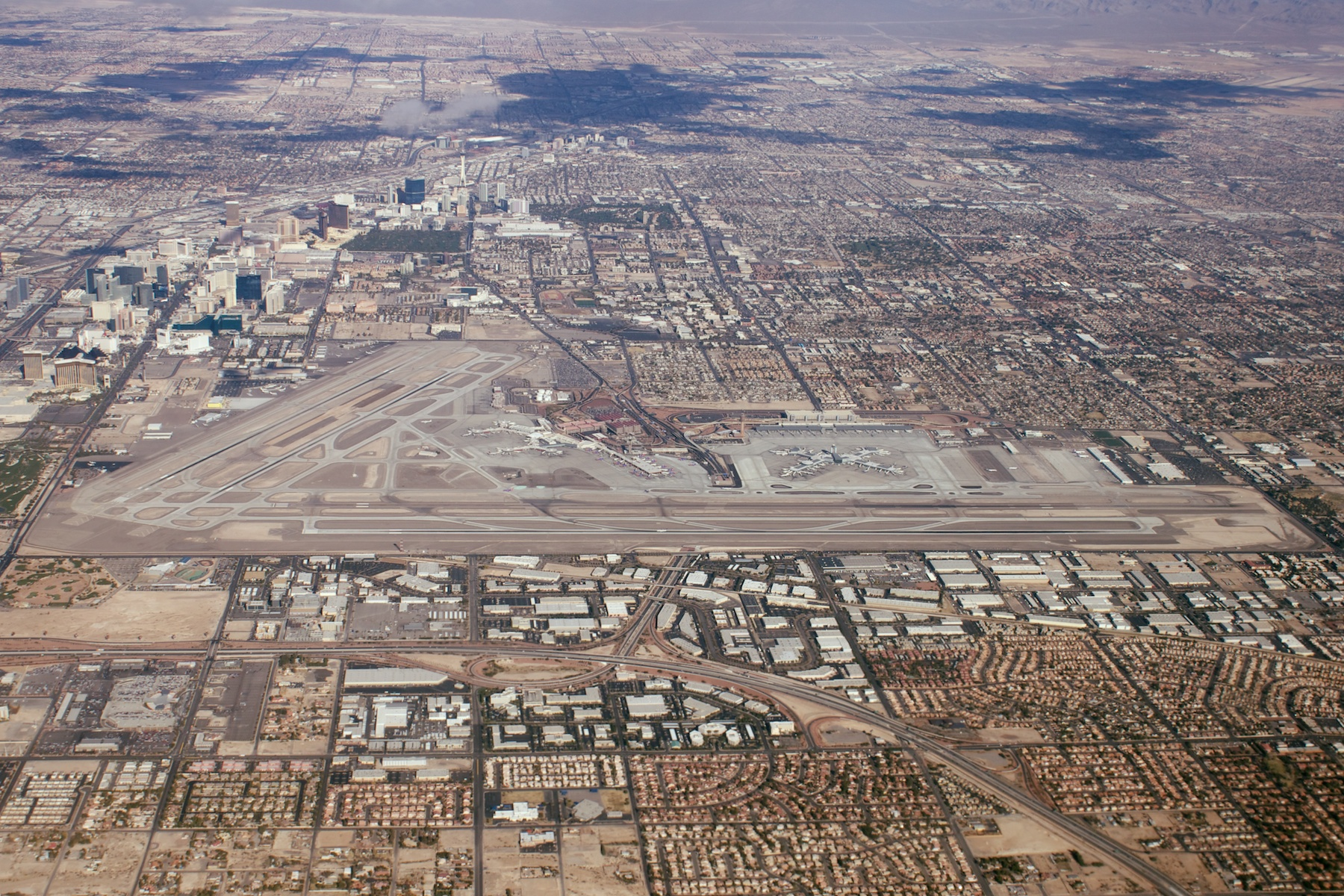 Aerial photo of McCarran International Airport (Las Vegas) on December 24, 2012 looking north on approach